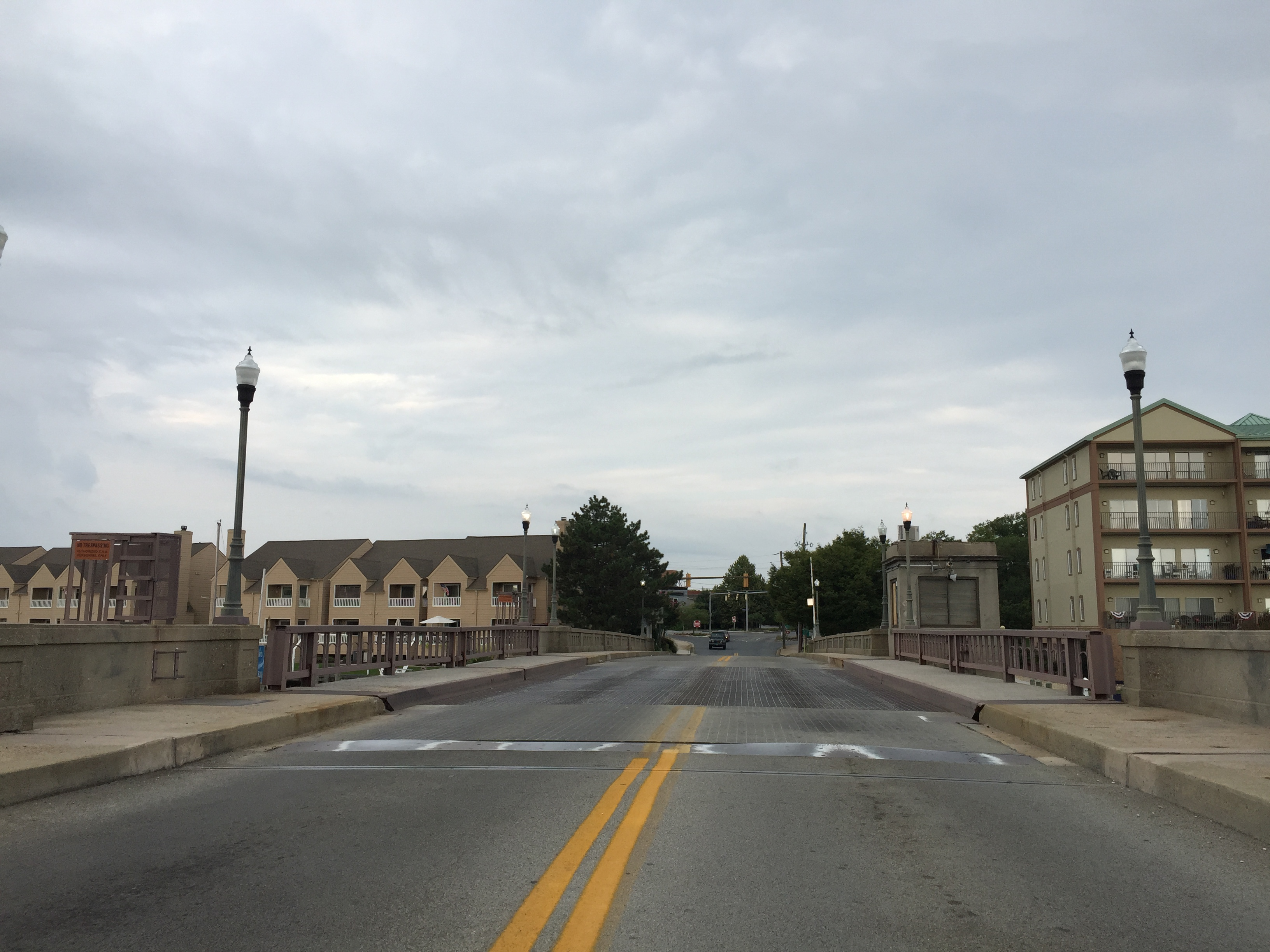 View west along Maryland State Route 795 (Maryland Avenue Drawbridge) crossing Cambridge Creek in Cambridge, Dorchester County, Maryland